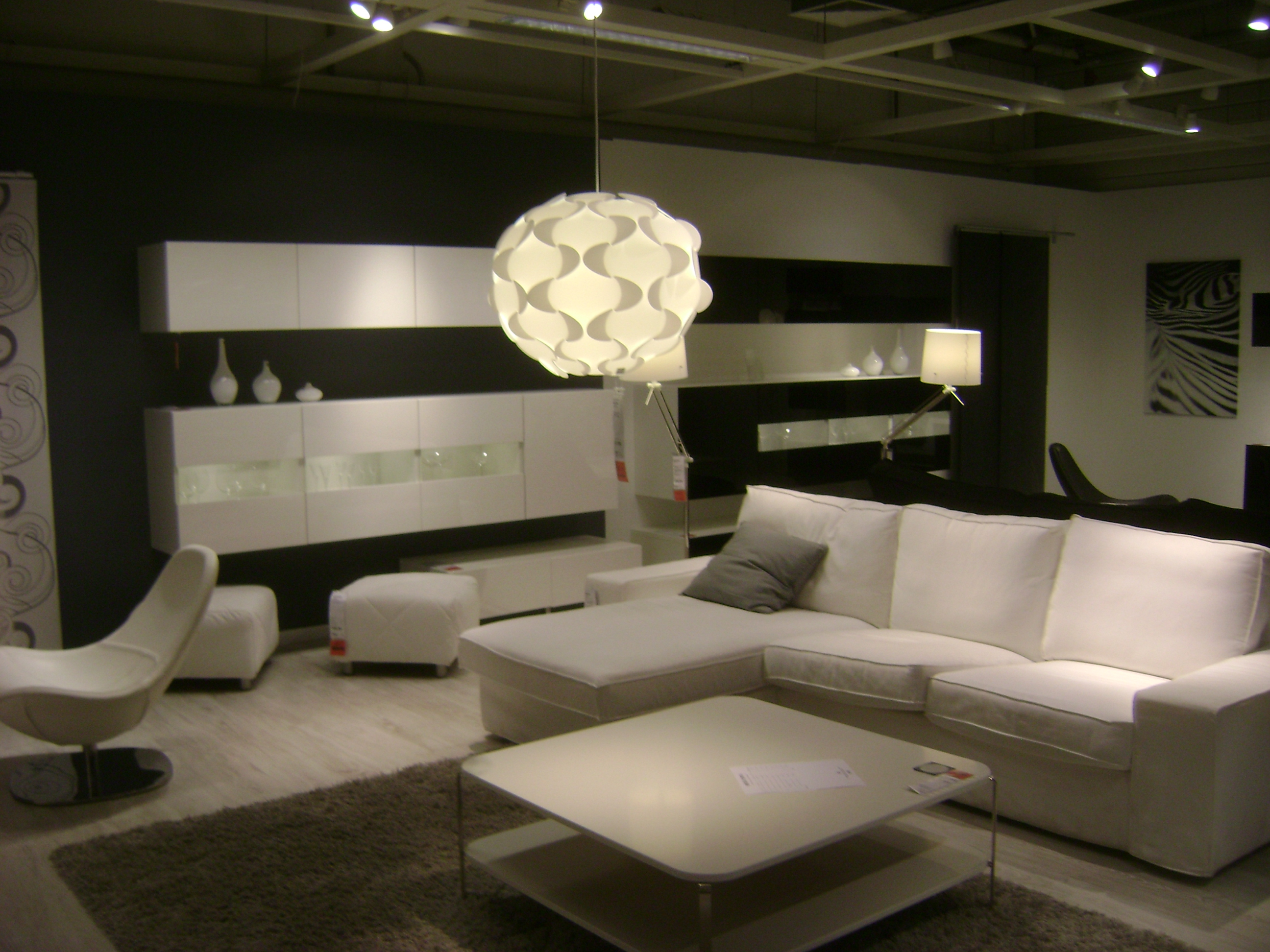 Poland. Gmina Raszyn. Janki, IKEA